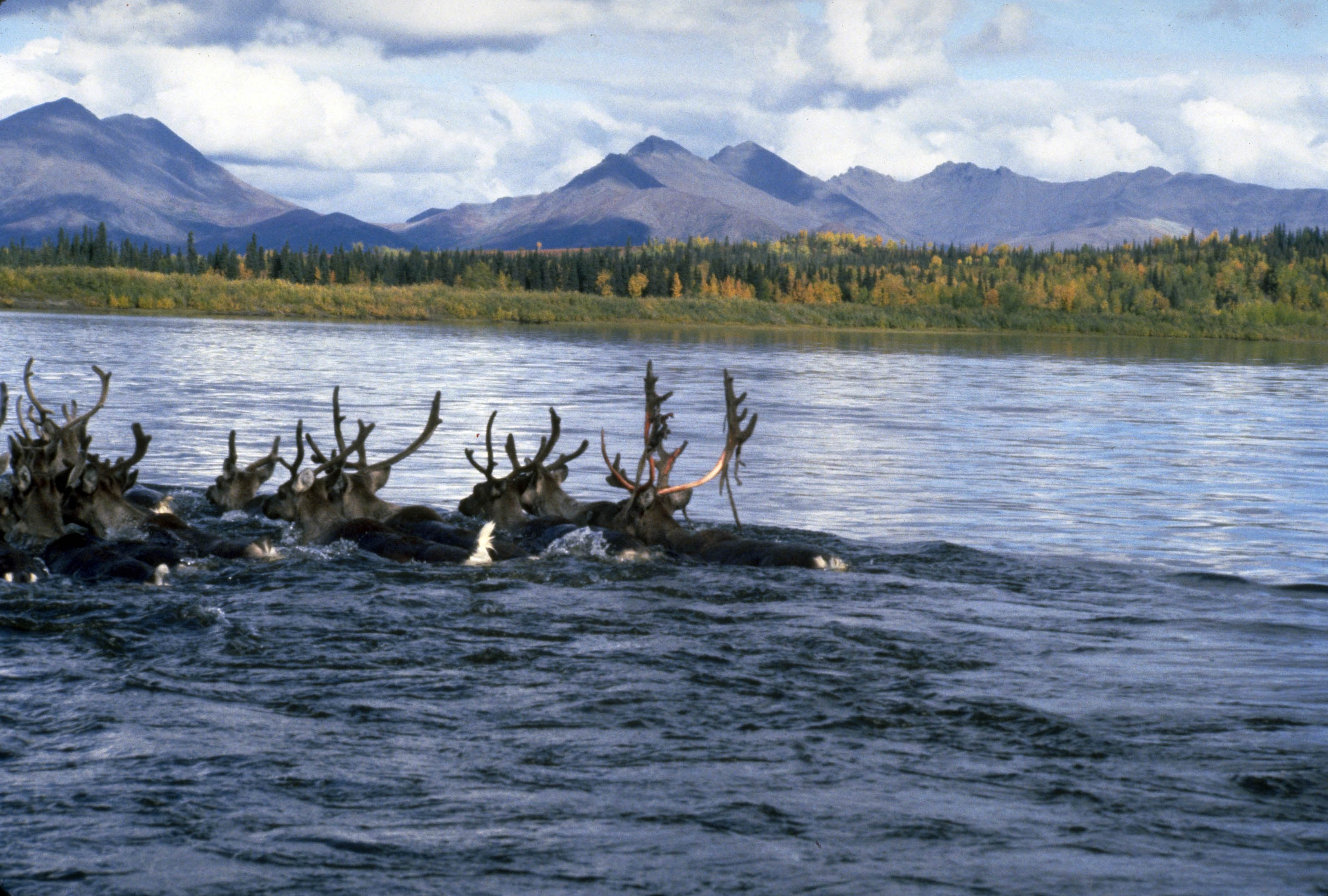 Big hooves for paddles and hollow hair for bouyancy make caribou good swimmers. That's important, because they have to swim across the Kobuk River twice as year as they migrate north in the spring and then south in the fall (as in this photo). Caribou swimming a river